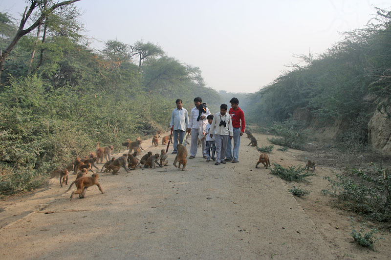 Rhesus Macaque Macaca mulatta in Chameli Van at Hodal in Faridabad District of Haryana, India.